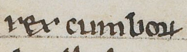 An excerpt from folio 9r of British Library Cotton MS Faustina B IX (the Chronicle of Melrose). The excerpt refers to the title of Máel Coluim mac Domnaill, King of Strathclyde (died 997).